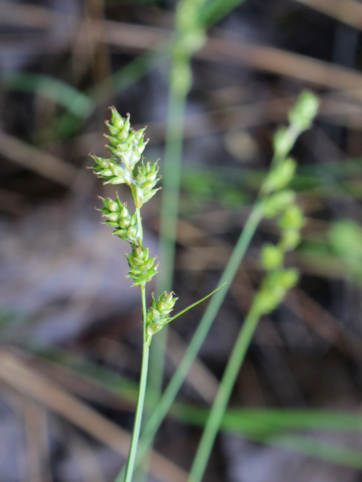 Cyperaceae, Carex brunnescens